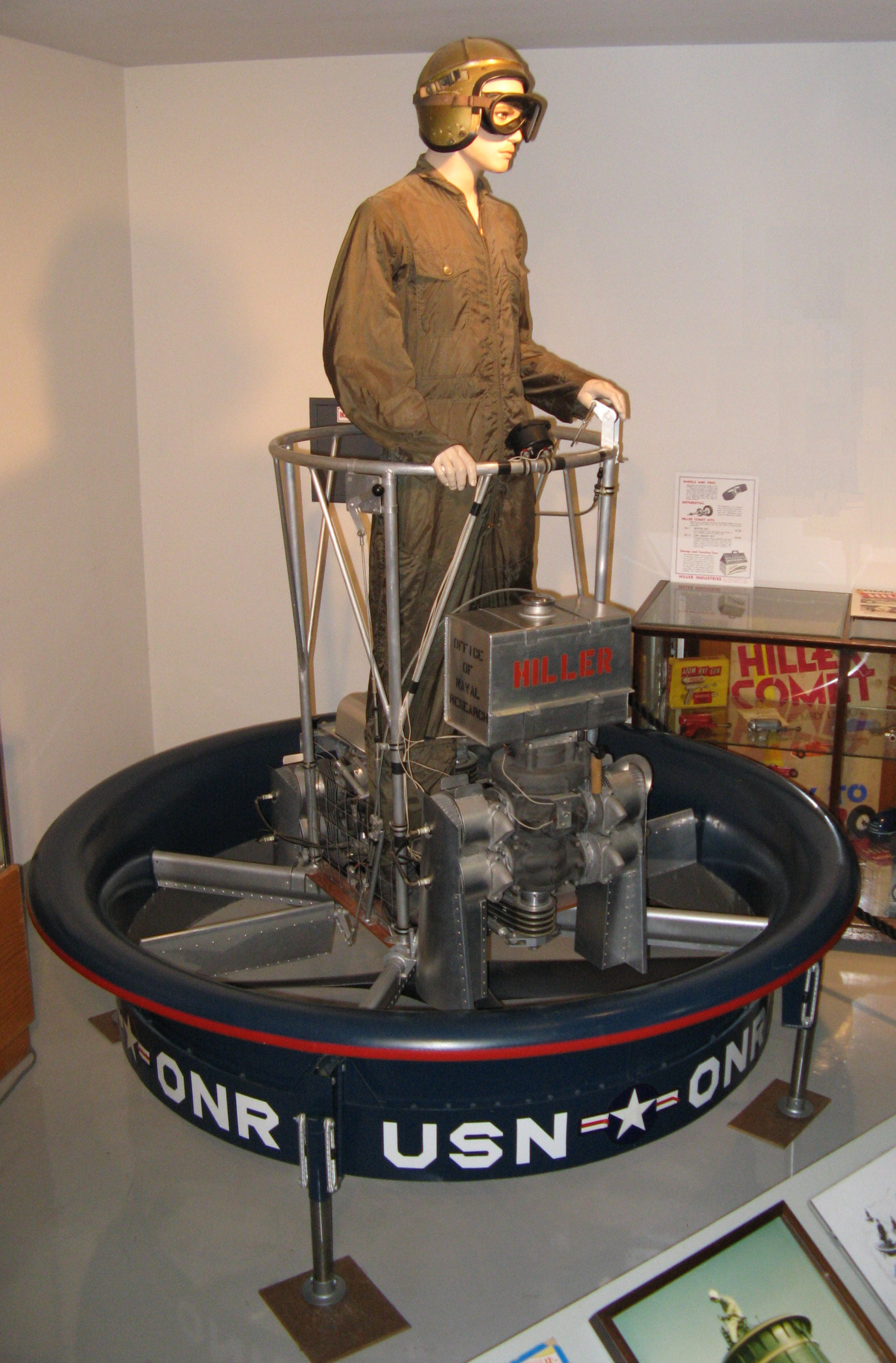 Hiller VZ-1 Pawnee, Hiller Air Museum, San Carlos, California